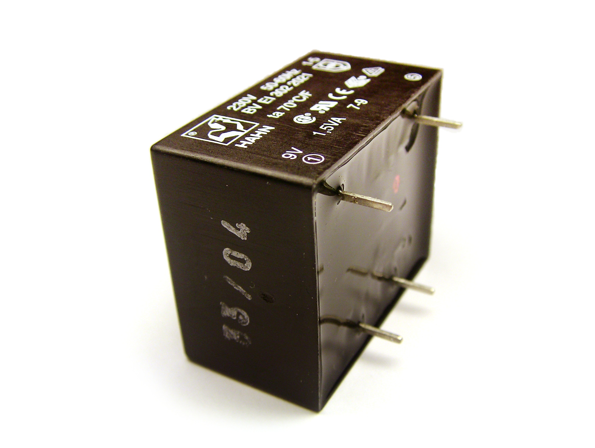 A small potted electrical transformer that is designed to be installed on a PCB. The surface formed by the potting compound (probably epoxy) is visible on the right. Other sides are formed by the plastic potting box.